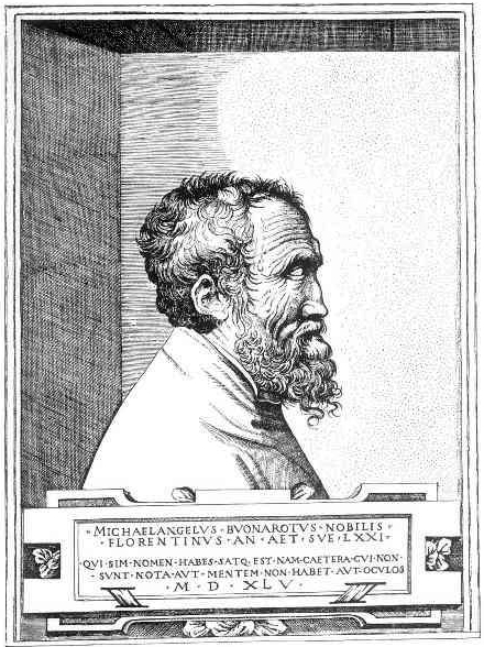 Portrait of Michelangelo Buonarroti